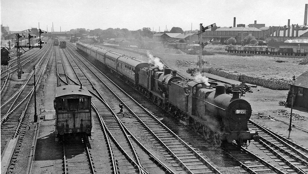 Down holiday express on Midland lines at Spital Bridge. View southward, towards Peterborough North station, with the site of the ex-Midland Spital Bridge Locomotive Depot (closed 1/2/60) on the right. On the left are the East Coast Main Lines from Grantham and the North. The train is the 11.00 Yarmouth (Vauxhall) to Leicester (London Road), which until 1958 would have run by the more direct Midland & Great Northern route: here it has two 4F 0-6-0s at the head, Nos. 44403 and 43969. For the scene is the opposite direction see 2178990.